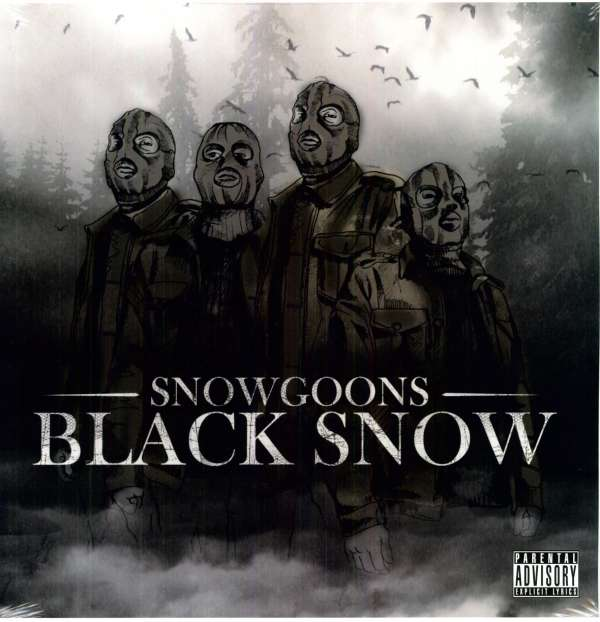 Cover des Albums „Black Snow“